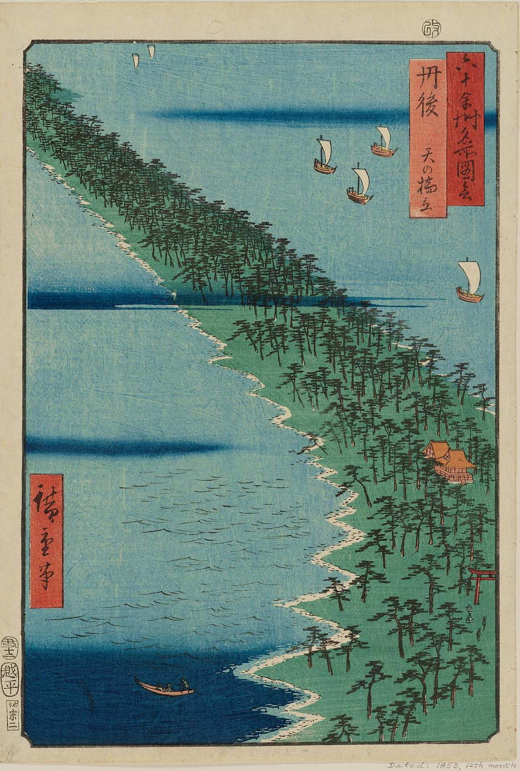 Part of the series Famous Places in the Sixty-odd Provinces, No. 38 (San'indō group)